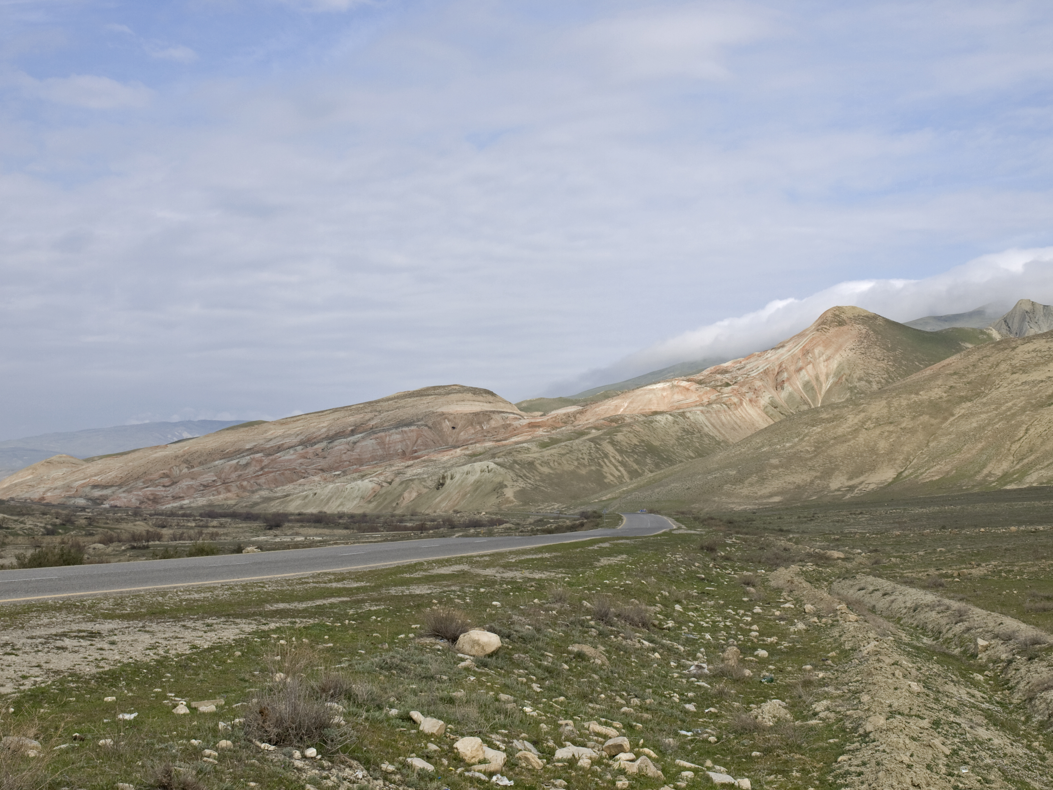 Sugar Candy Mountains on the way to Xizi, eastern side of the valley